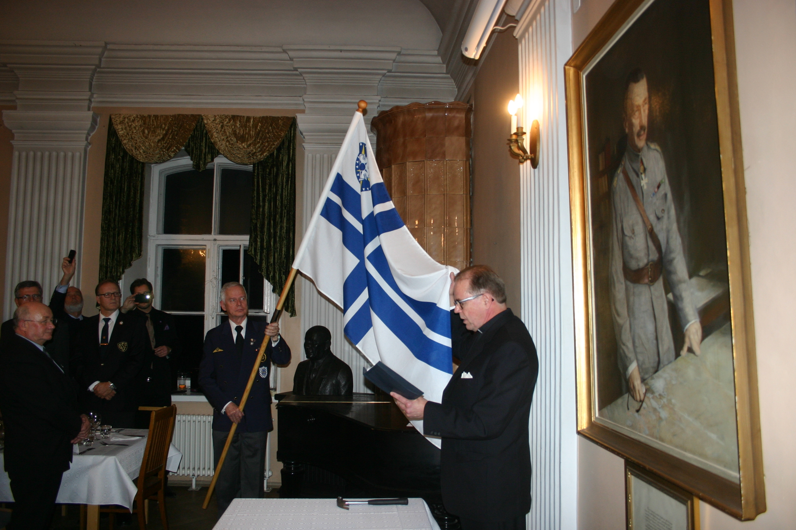 Inaguration ceremony of the yacht ensign of Finnish Sailing and Boating Federation